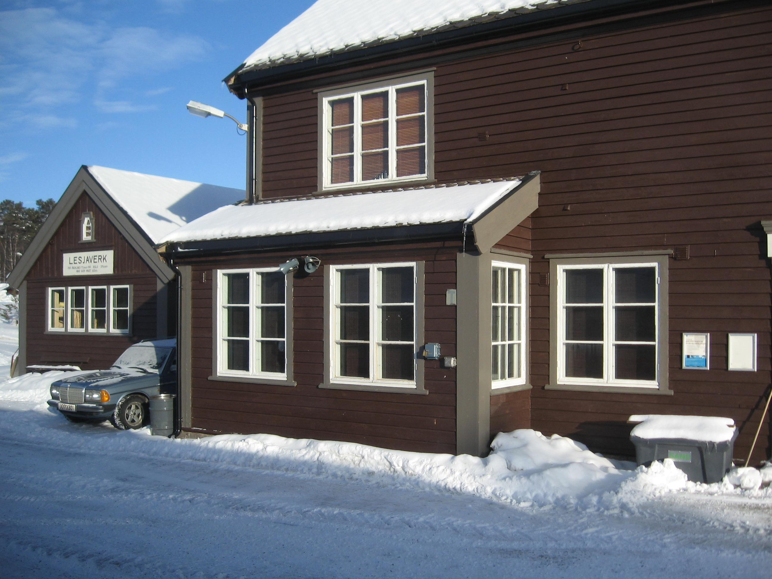 Lesjaverk Station in winter